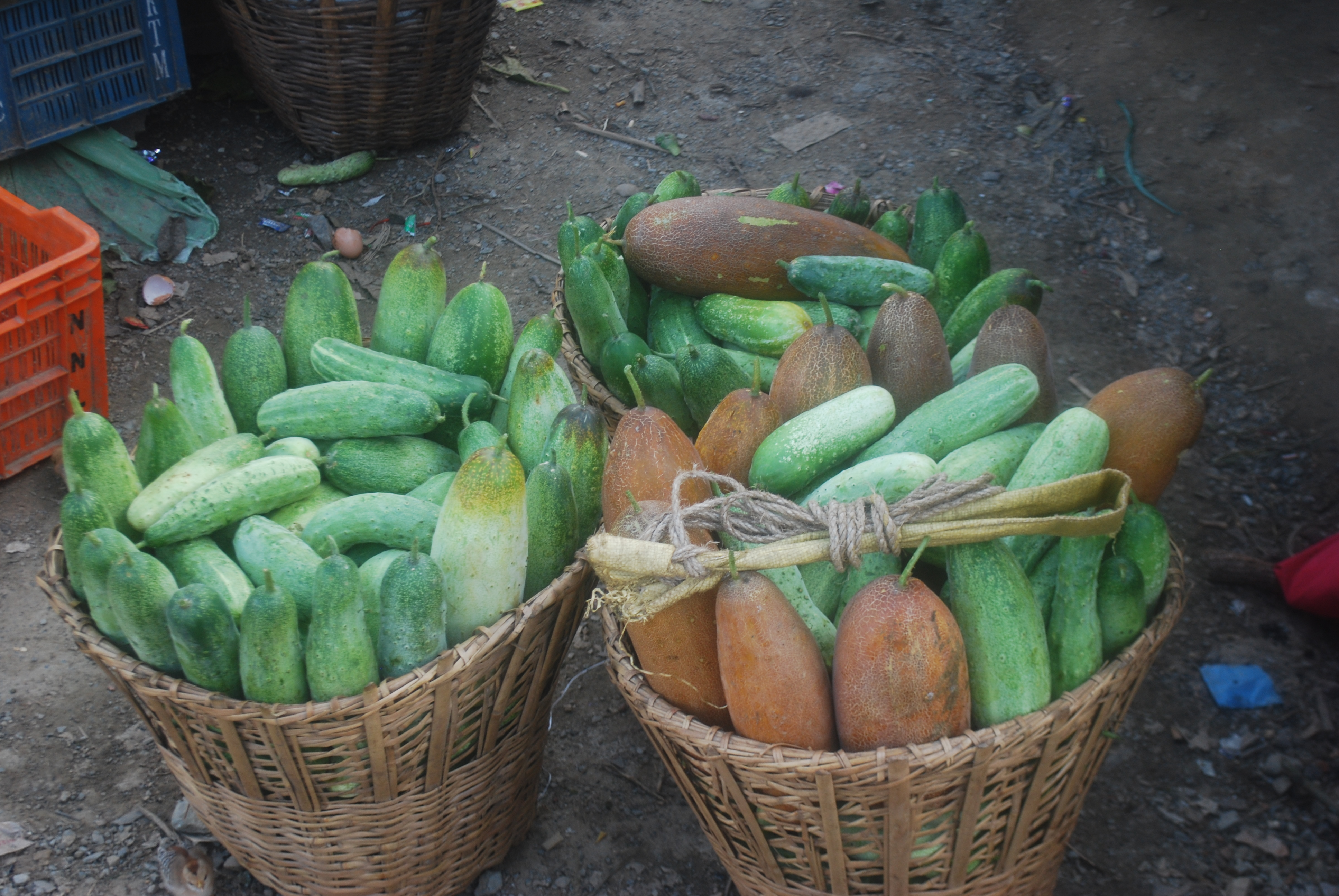 Cucumber from Chhaimale VDC of Lalitpur district.